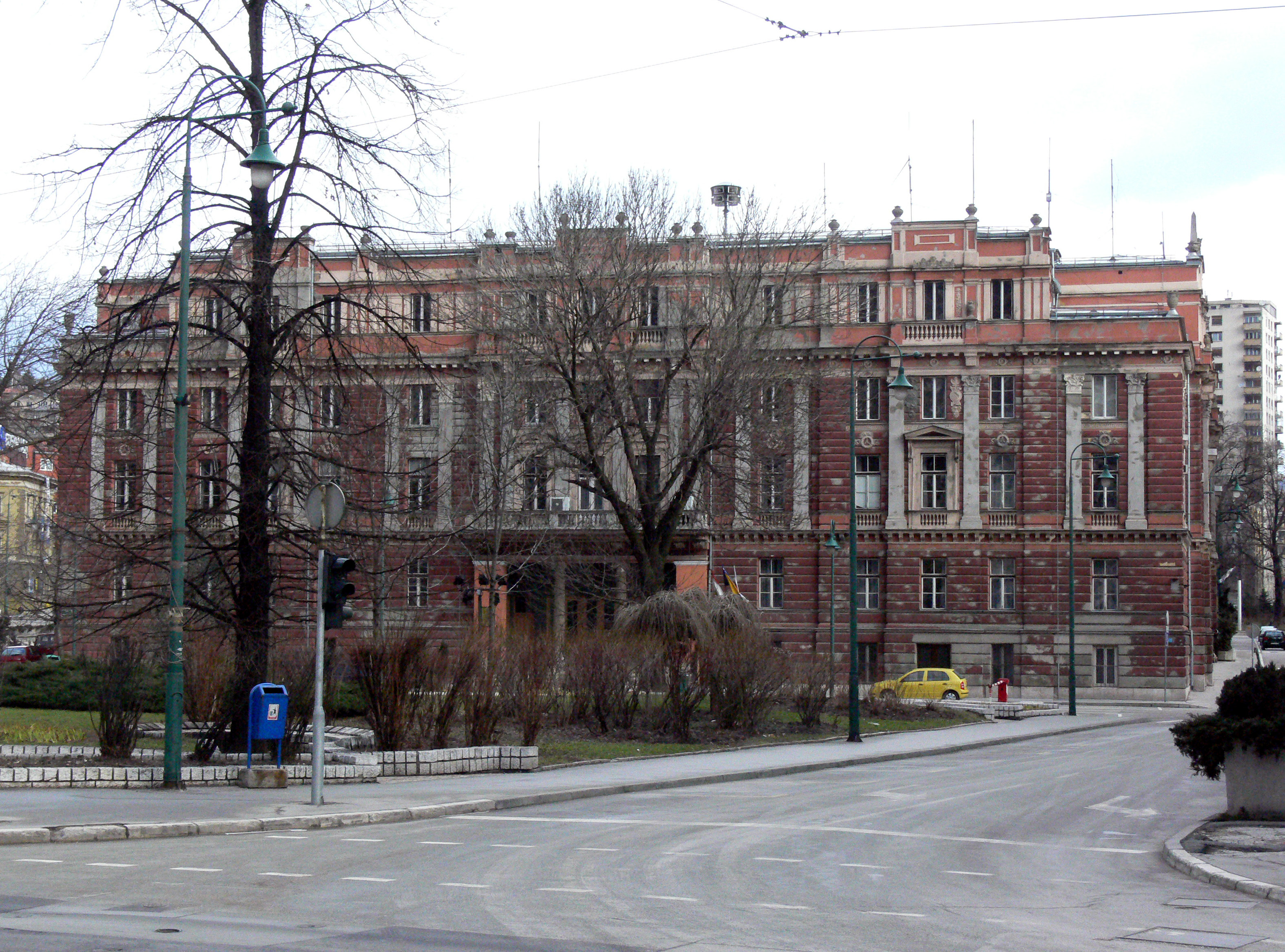 The gouvernement building of the canton sarajevo